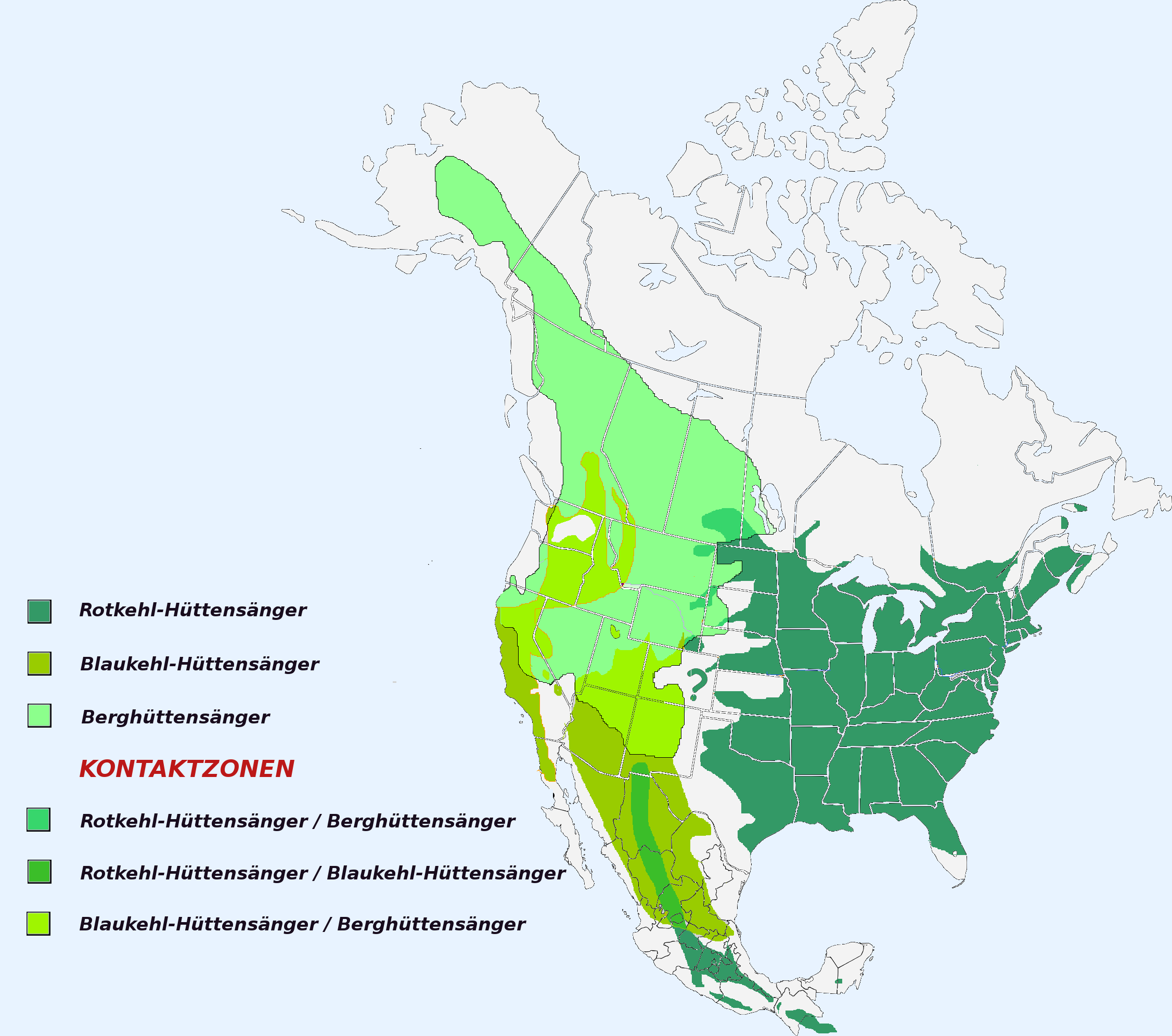 Genus Sialia - Distribution